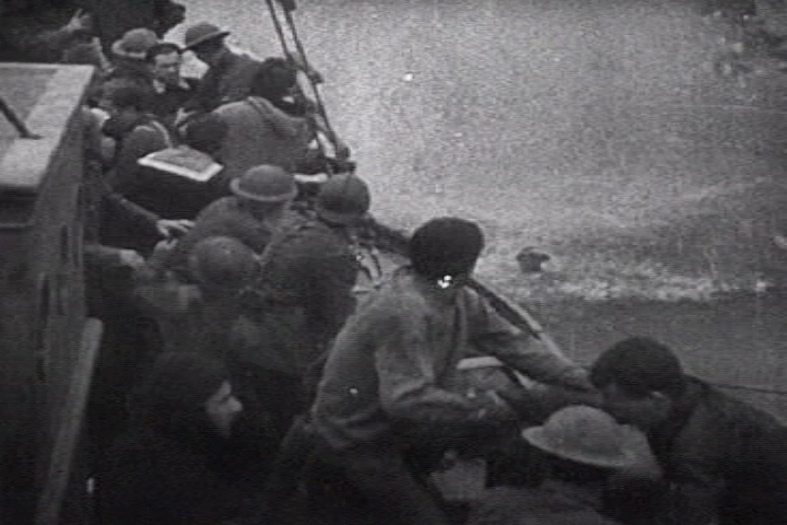 British fisher rescuing allied troops escaping from Dunkirk in a trawler (France, 1940). Screen-shot taken from the 1943 United States Army film Divide and Conquer (Why We Fight #3) directed by Frank Capra and partially based on news archives, animations, re-staged scenes and captured propaganda material from both sides.